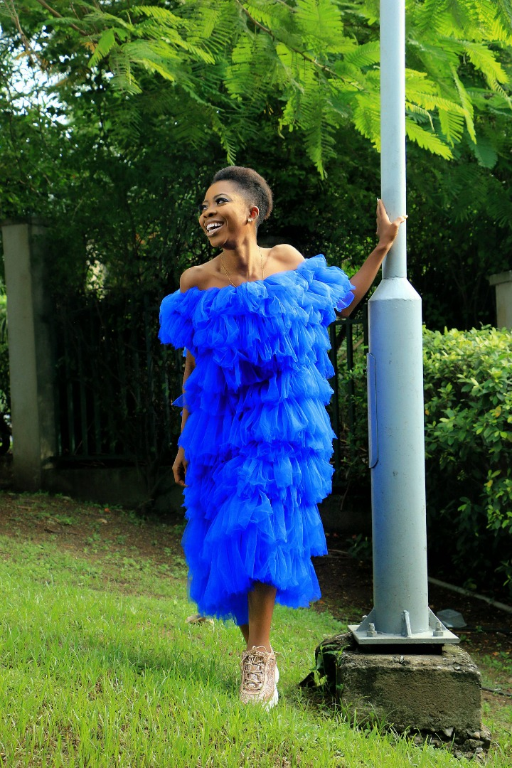 Depicted person: Aderounmu Adejumoke – actor